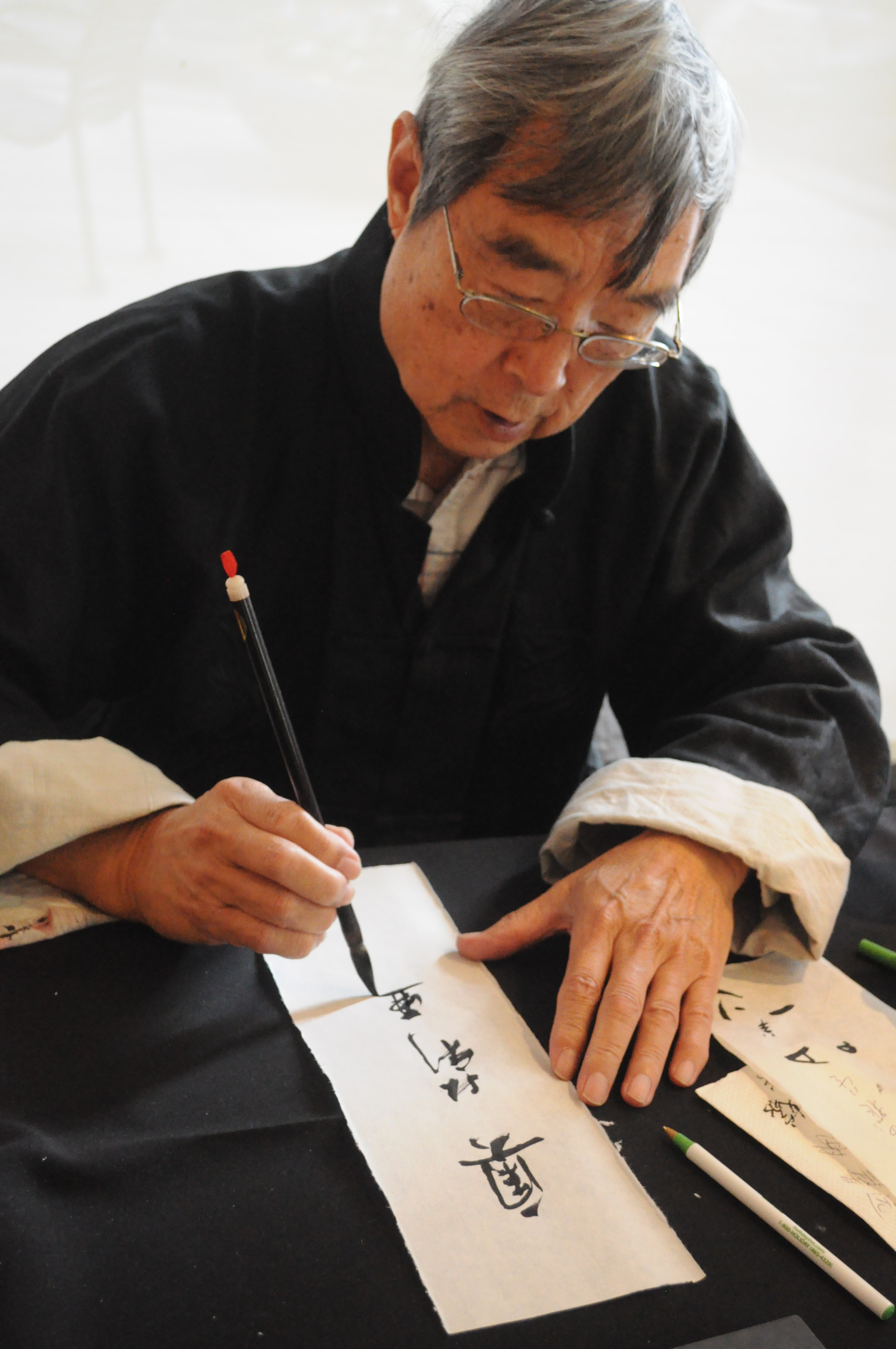 Chinese calligrapher at Lunar New Year event, Trammell & Margaret Crow Collection of Asian Art, Dallas, Texas, USA.